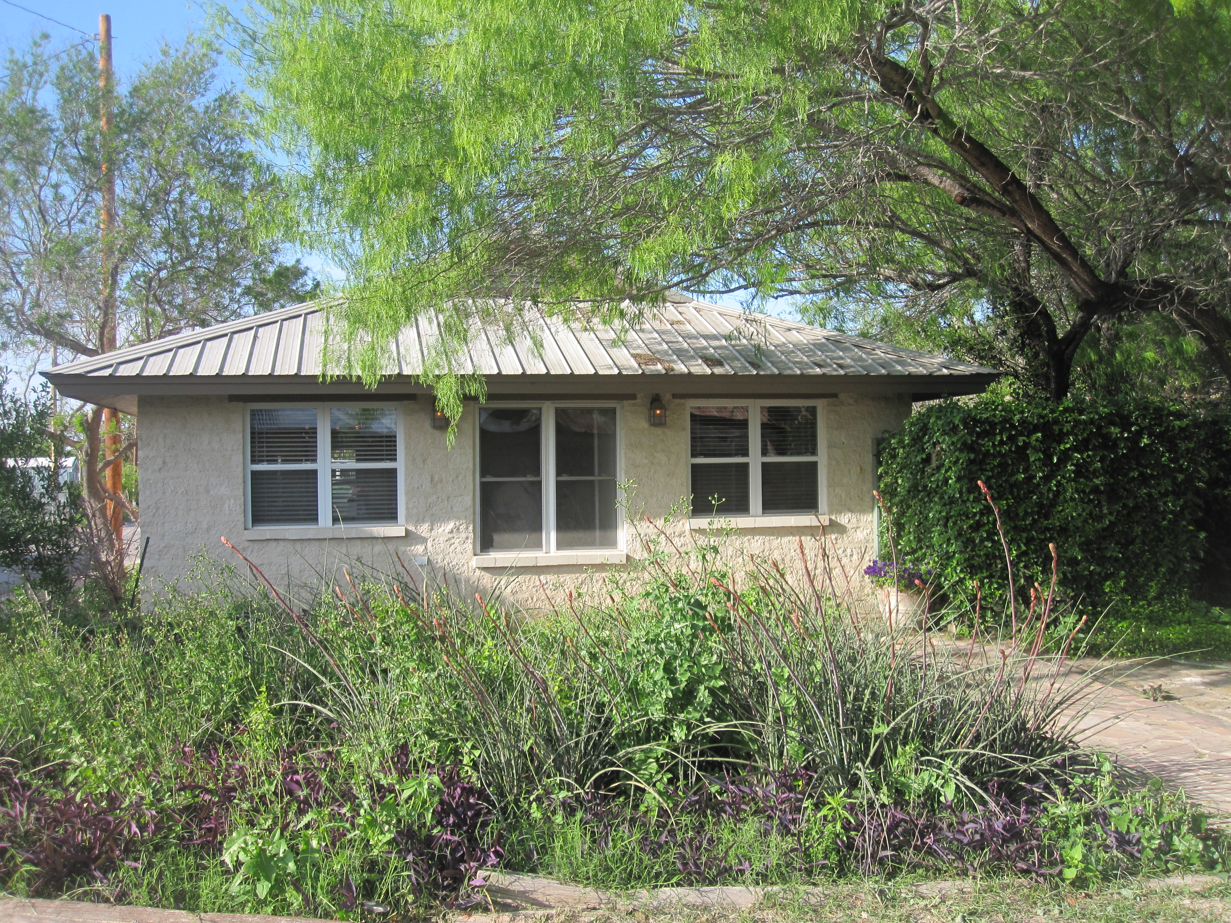 I took picture with Canon camera.